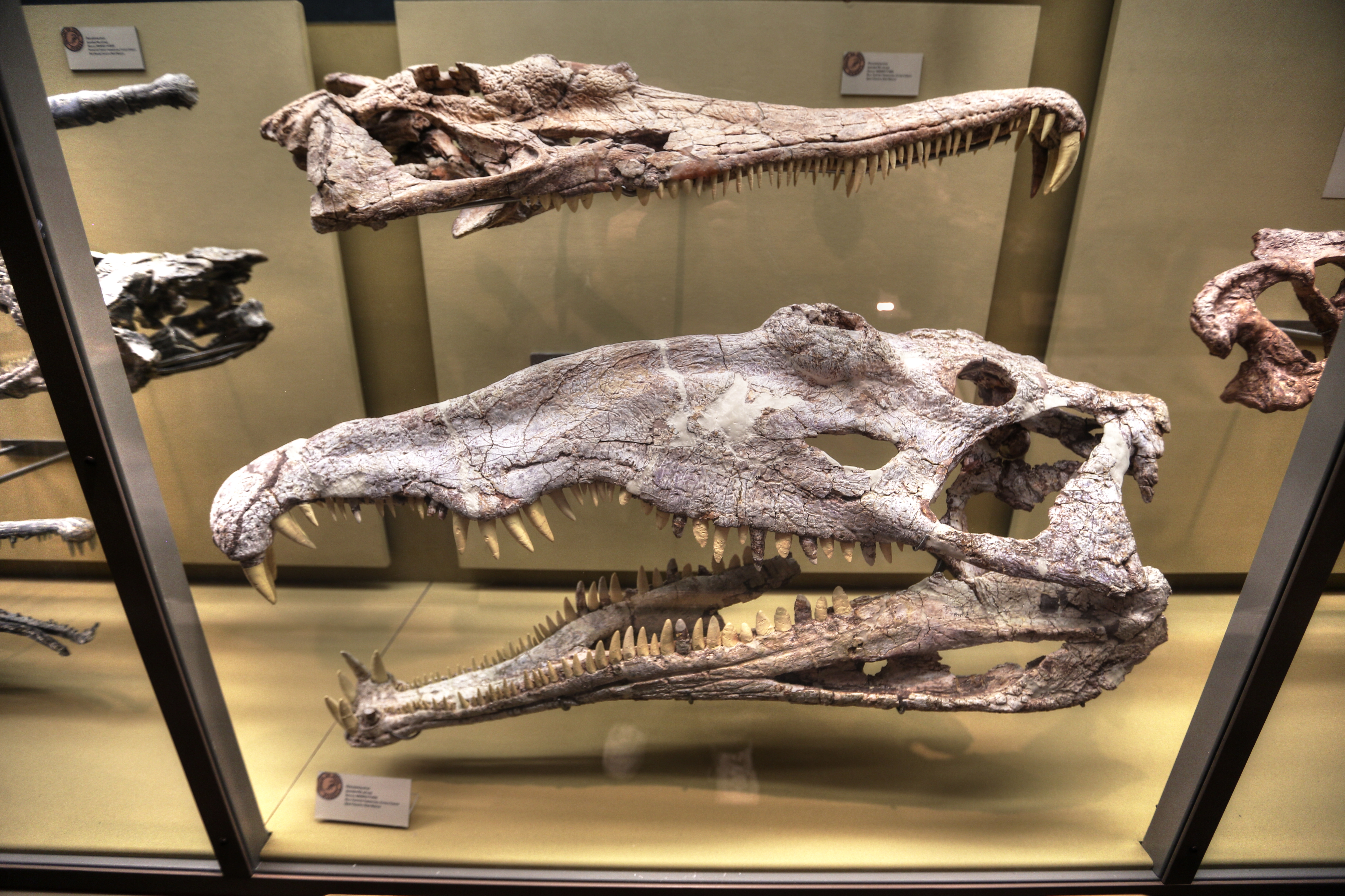 The large skull (NMMNHS P-4256) has been assigned to either Machaeroprosopus mccauleyi and Redondasaurus.